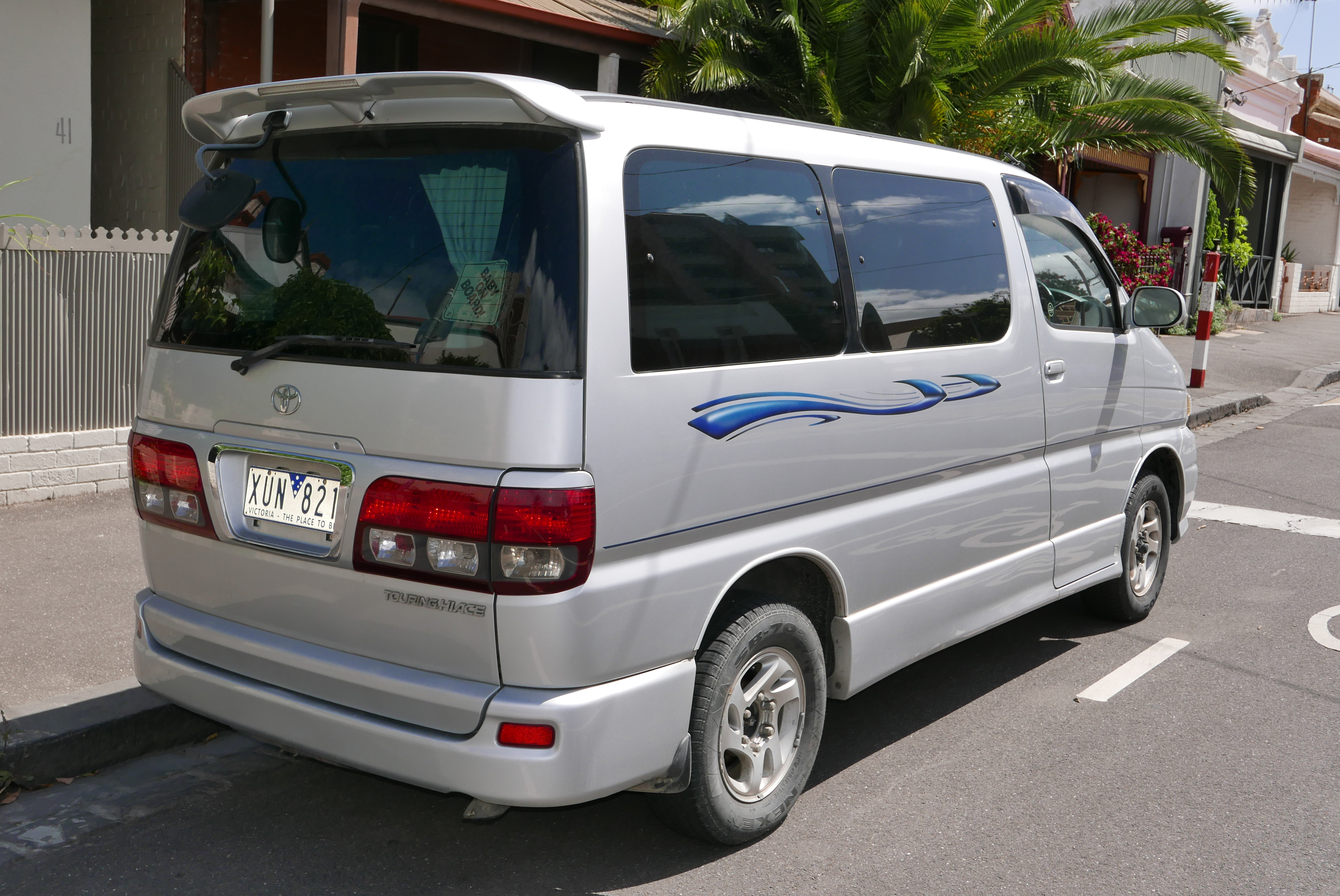 2000 Toyota Touring HiAce (KCH46W) V package van. This is a grey import from Japan, complianced for Australia in October 2009. Photographed in Collingwood, Victoria, Australia. Vehicle registration enquiry results Jurisdiction Victoria Registration XUN821 Chassis code 6U900KCH460018075 Engine code 1KZ0765559 Compliance date 2009-10 Year of manufacture 2000